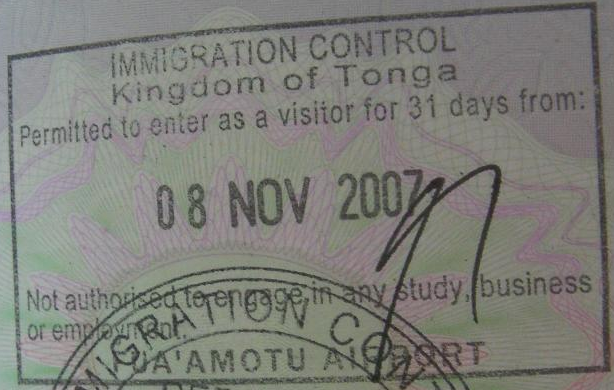 Passport stamps from Tonga